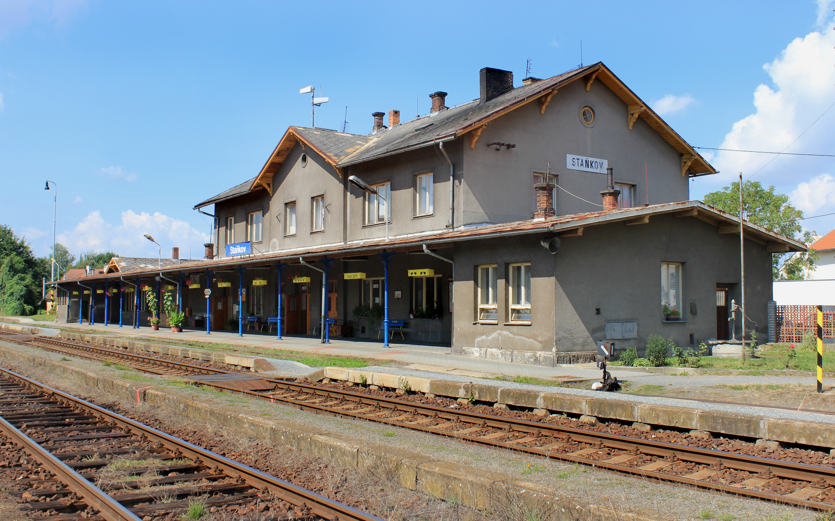 Train station in Staňkov, Czech Republic.